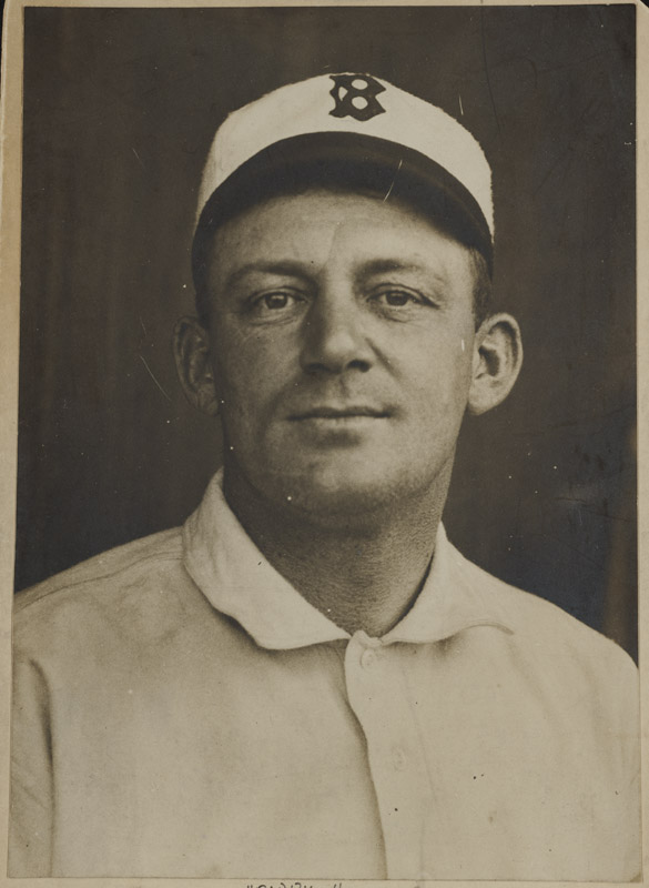 Photo courtesy of the Boston Public Library. William "Bad Bill" Dahlen, played in Boston in 1908 and 1909.